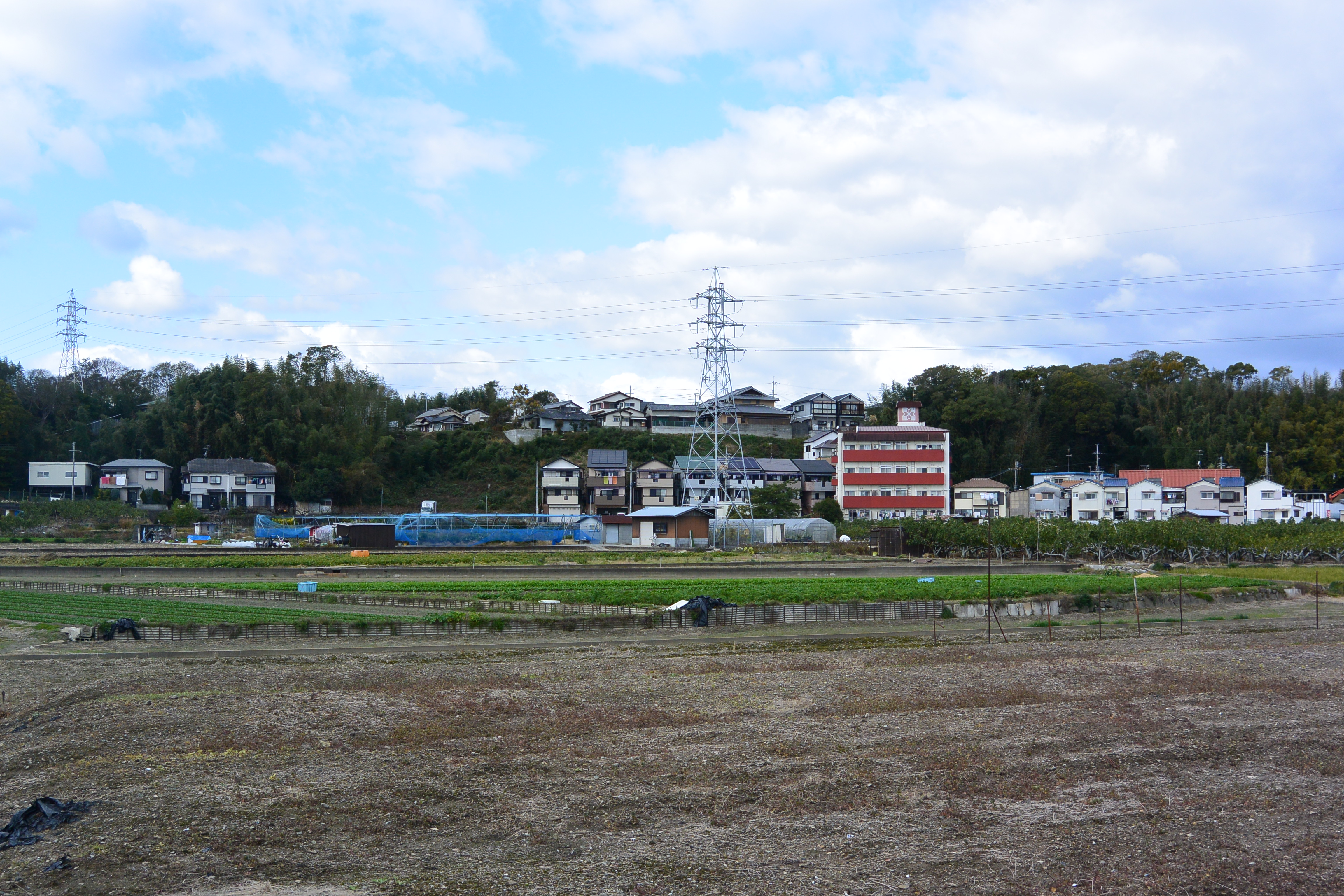 Erosion tettace of Itami Plateau at Kawanisi, Hyogo